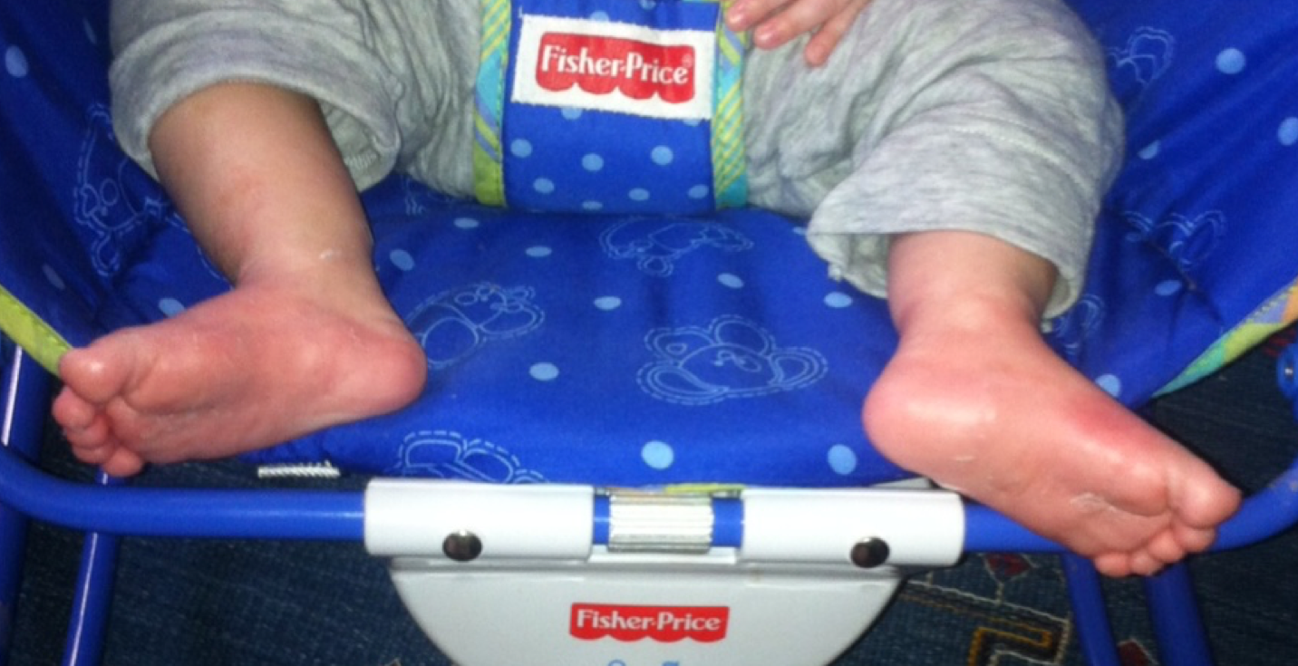 Skew foot after orthopedic treatment